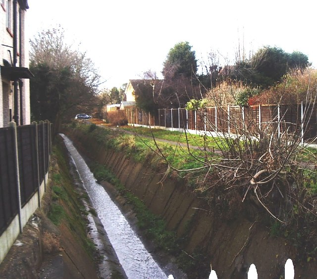 Prittle Brook, Leigh-on-Sea. Taken from Flemming Avenue looking west. Prittle Brook, a short tributary of the River Roach rising near Thundersley, forms a shallow valley through this part of Leigh.